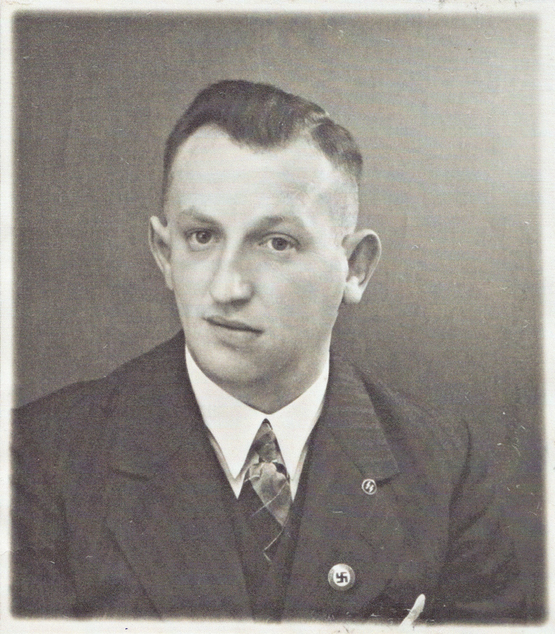 Johannes Schmidt (1908-1976), agent of the Sicherheitsdienst (SD) of the SS.